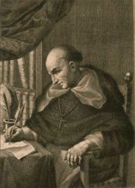 Portrait of the missionary Bartolomé de Las Casas